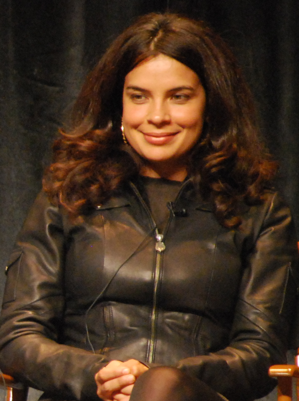 Zuleikha Robinson